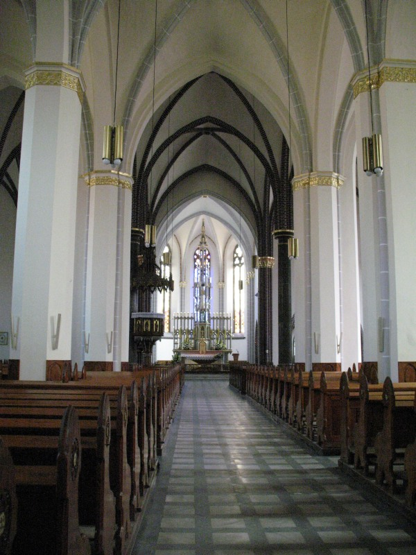 Interior of parish church of the Nativity of Virgin Mary in Głubczyce